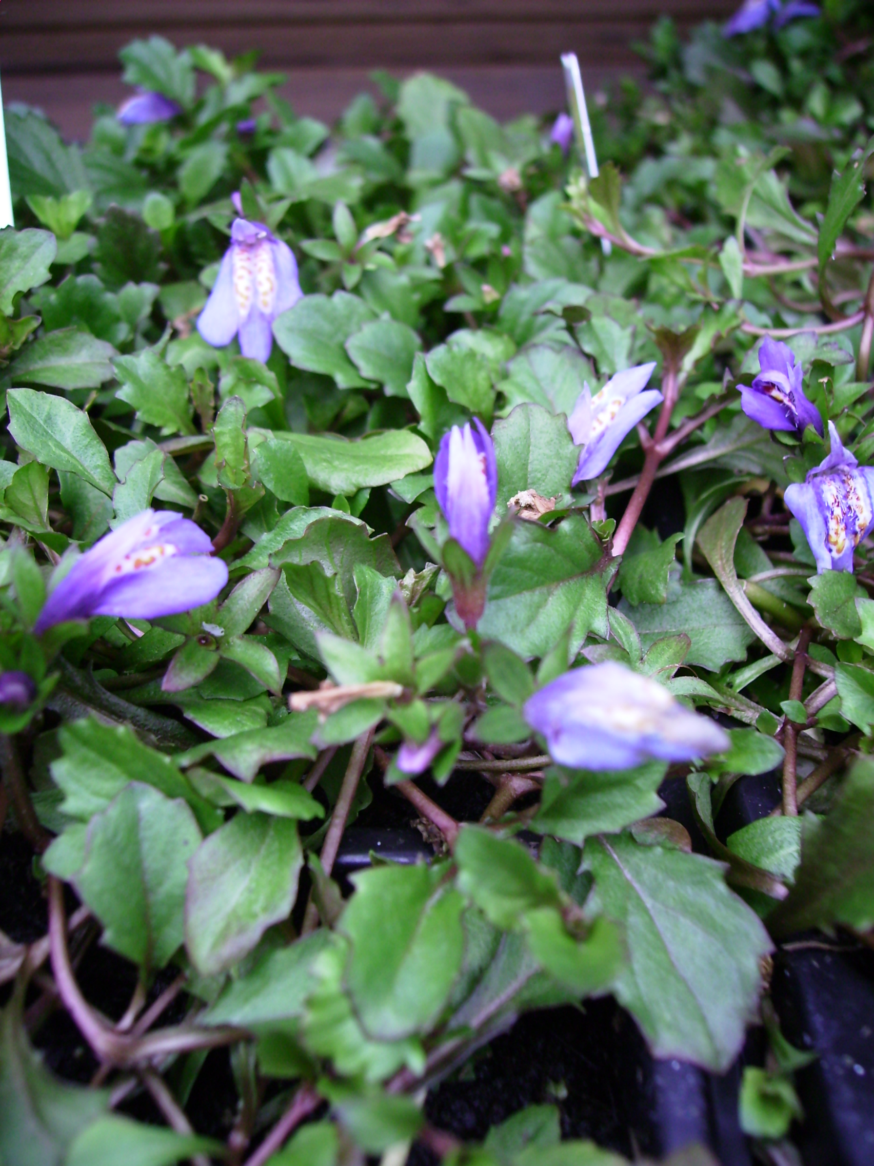 Mazus pumilus (Japanese Mazus)- invasive plant sold in stores